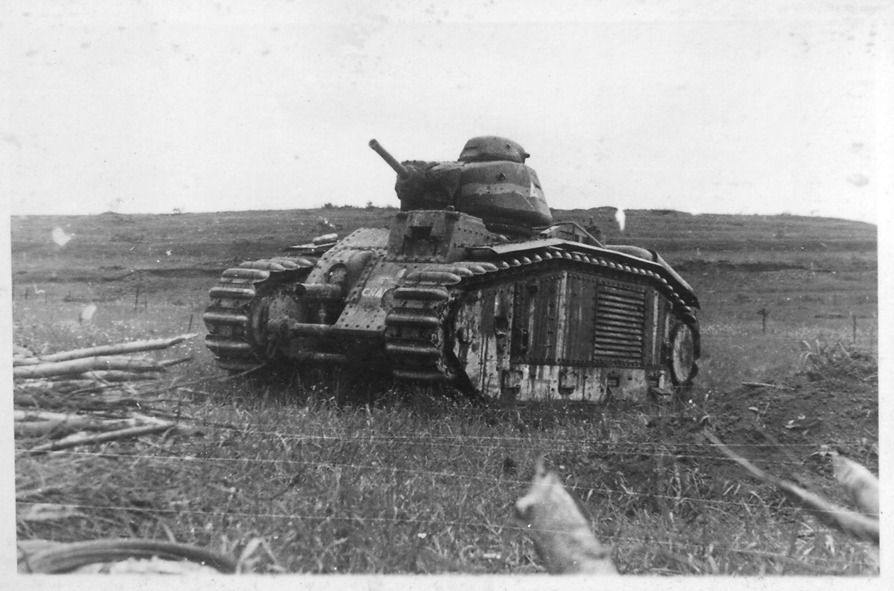 Char de Bataille B1bis